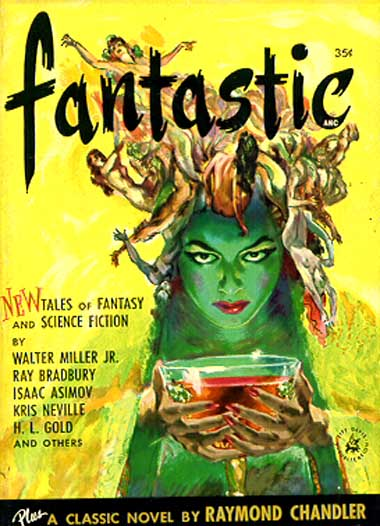 Cover of Fantastic, Summer 1952